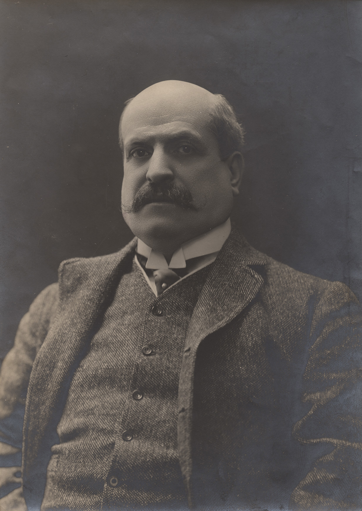 Portrait of Arturo Colautti, journalist (1851-1914). Photo by Varischi e Artico, Milano, before 1914.